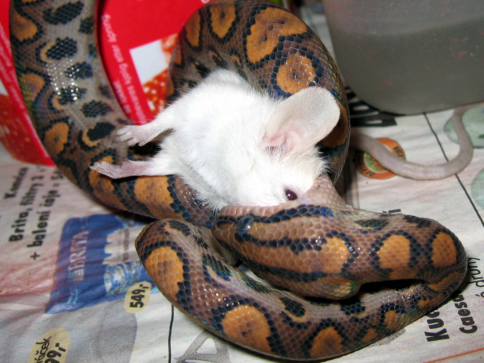 Epicrates Cenchria Cenchria Photo: karoH